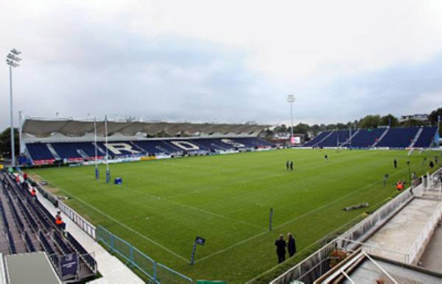 RDS Arena